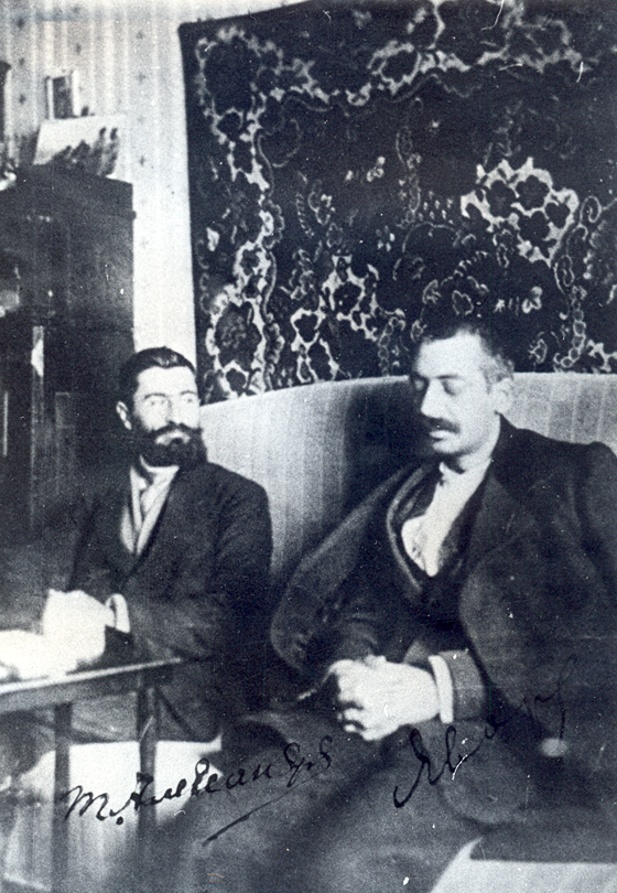 Portrait of Todor Alexandrov with Peyo Yavorov.